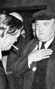 River Plate manager Renato Cesarini (left) and president Antonio Liberti after the match lost to Peñarol in the Copa Libertadores playoff.